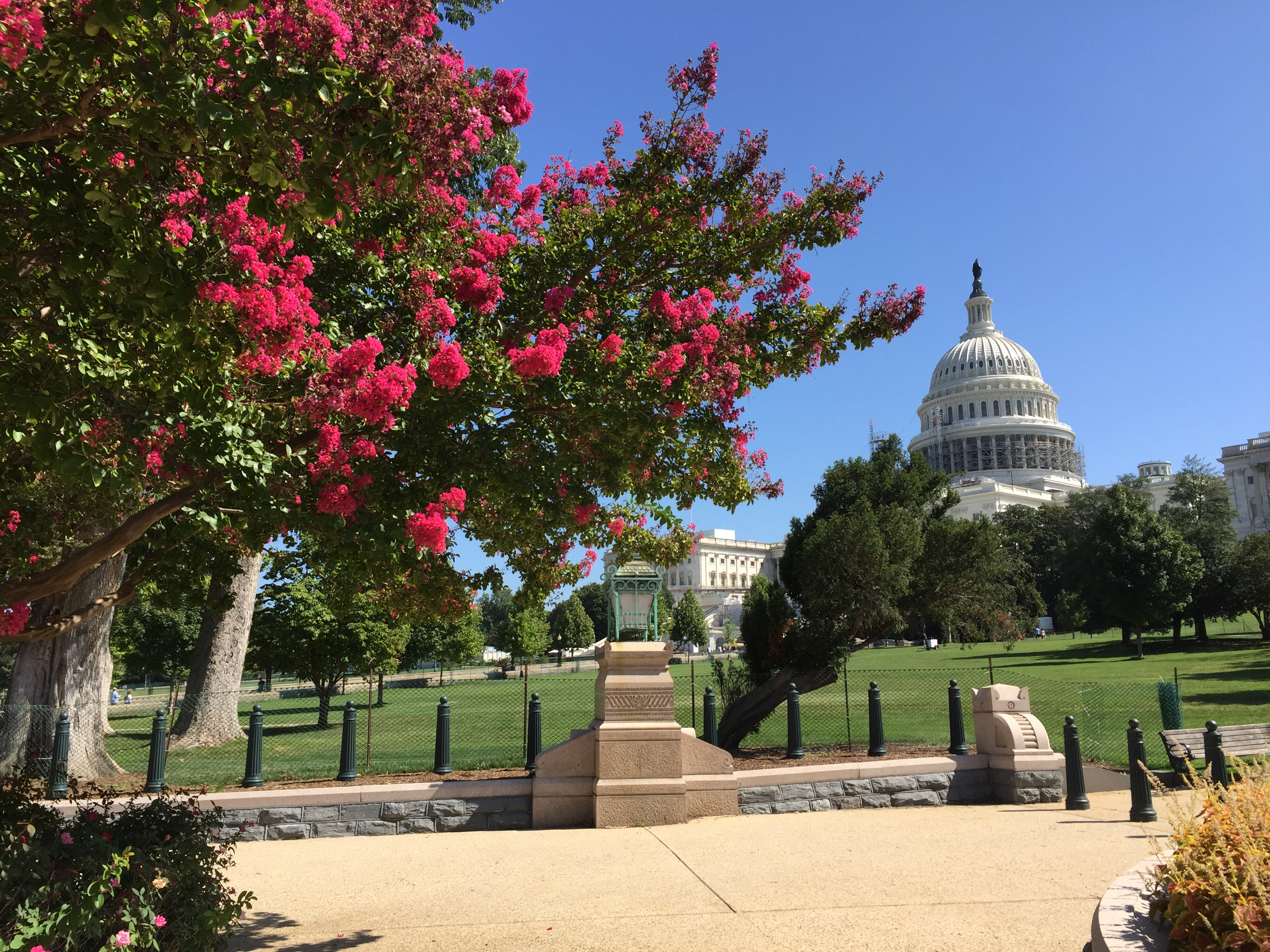 United States Capitol with blooming crape myrtle tree in fall 2016